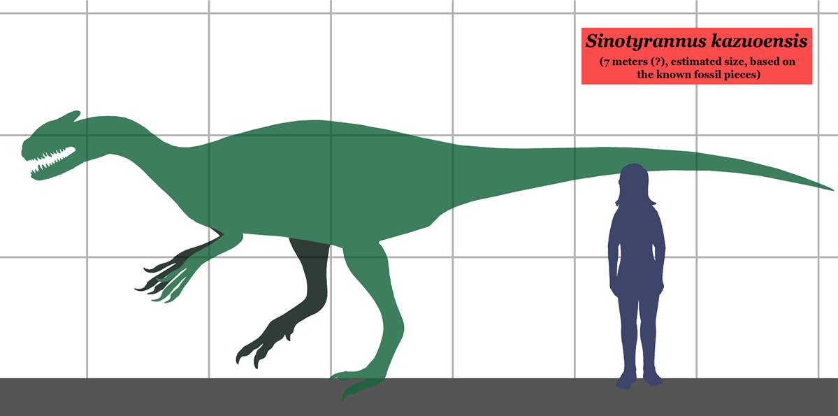 Estimated size of the theropod dinosaur Sinotyrannus.